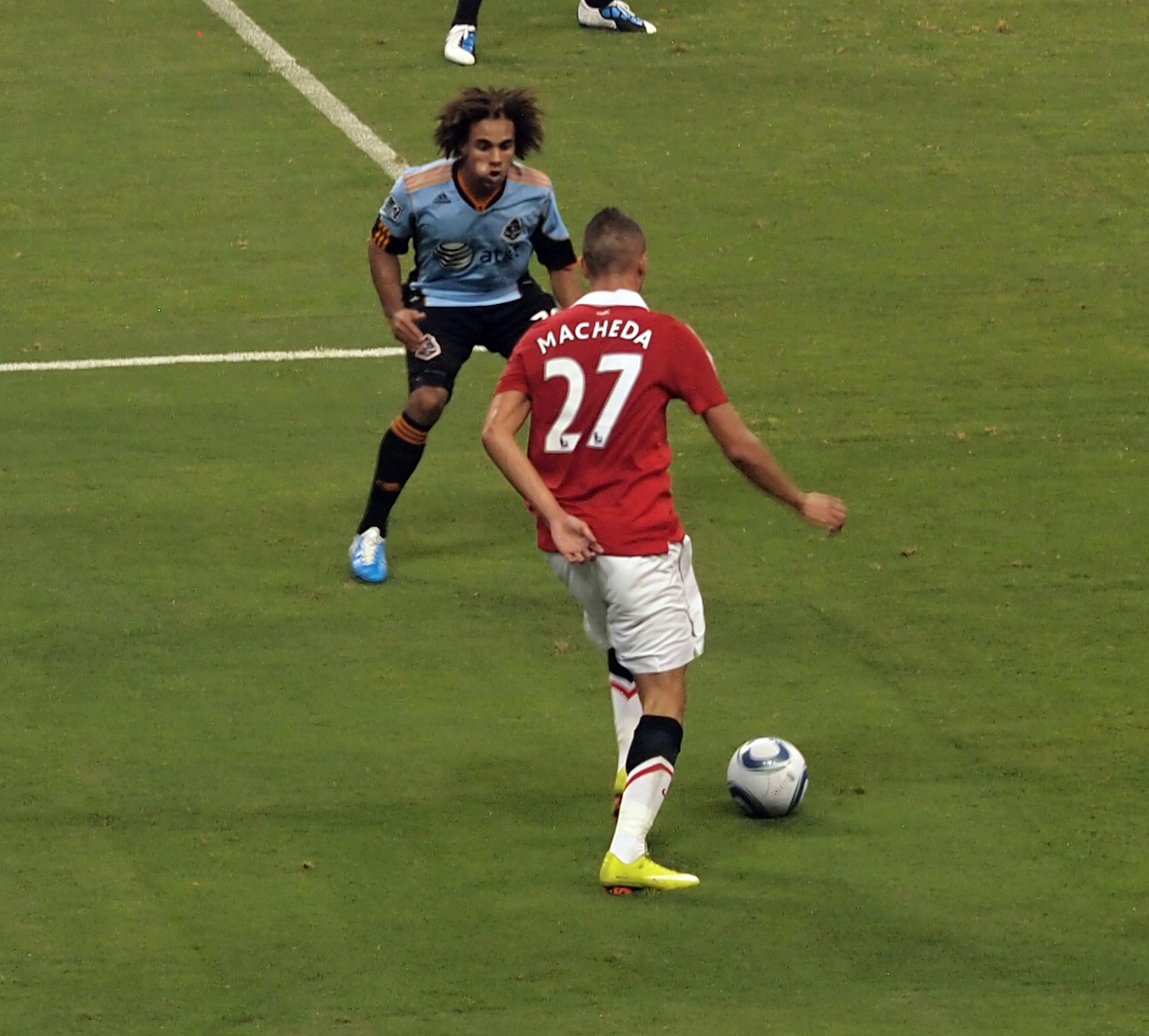 Federico Macheda of Manchester United defended by Kevin Alston of the MLS All Stars/New England Revolution.